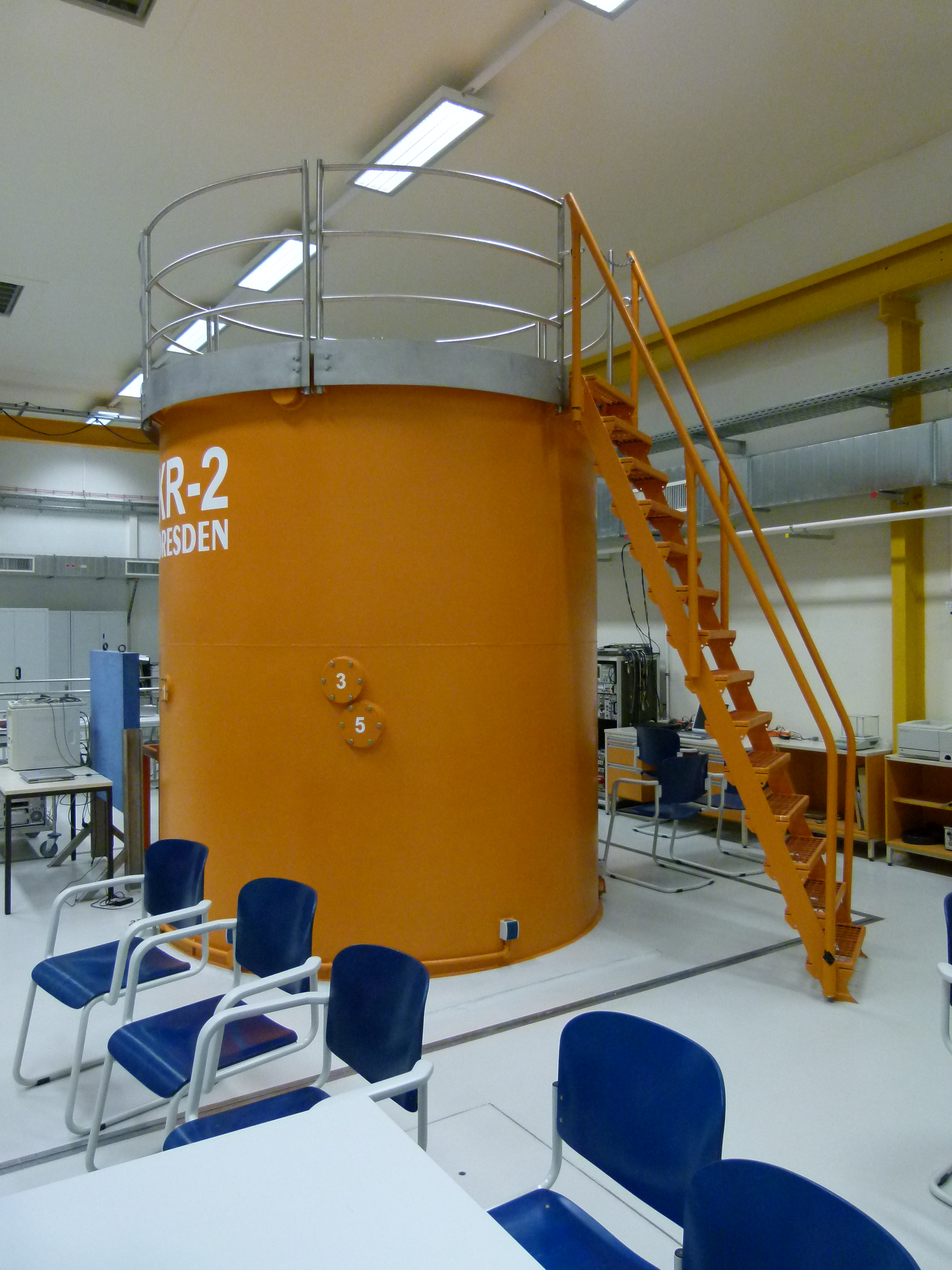 The picture shows the research reactor "AKR 2" which is operated by the Technische Universität Dresden. It was taken during the Long Night of the Sciences 2018. The reaktor is 3,50m tall and its diameter is 2,50m.